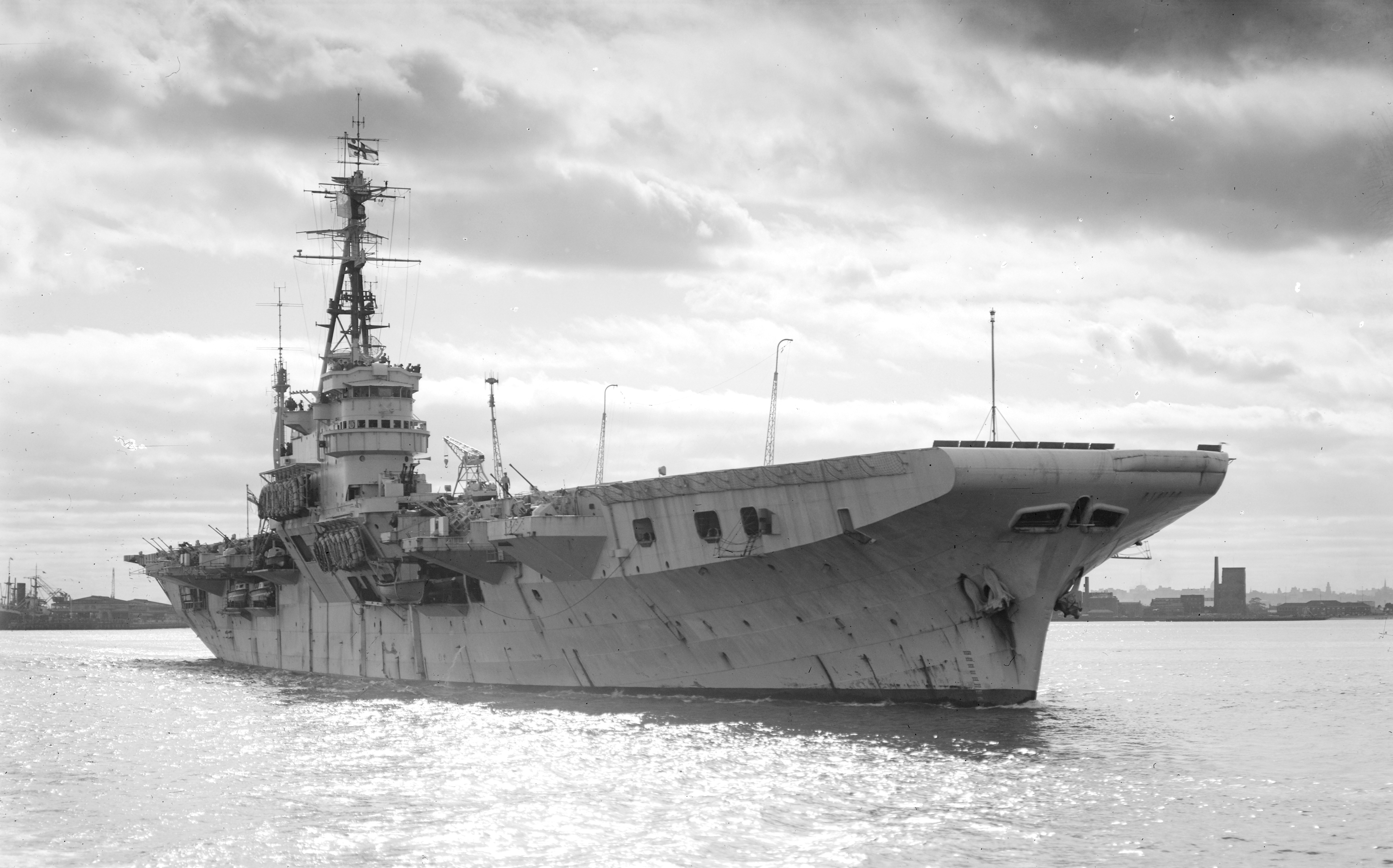 HMS Theseus (R64)